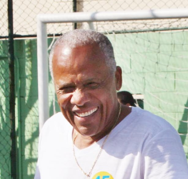 Former Brazilian footballer Dadá Maravilha in 2014.